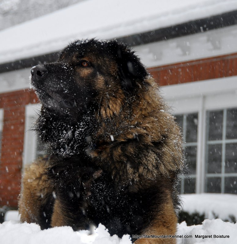 Show's the mane of a male Estrela